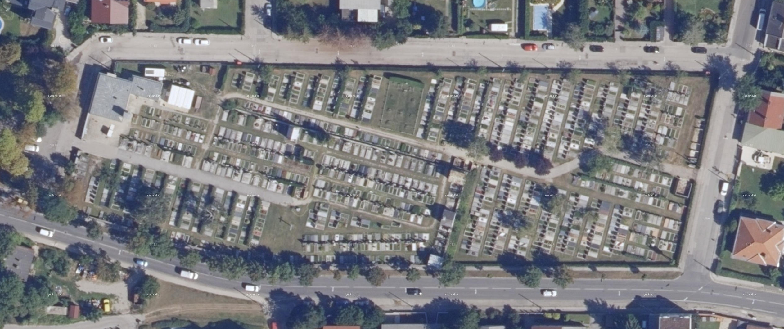 Orthophoto of the cemetery Rodaun park in Vienna, Austria